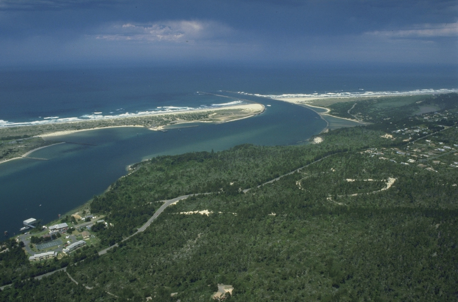 The mouth of the Siuslaw River in the Pacific Ocean at Florence, Oregon, USA.